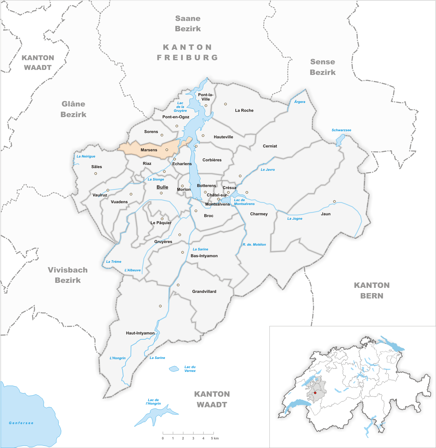 Municipality Marsens